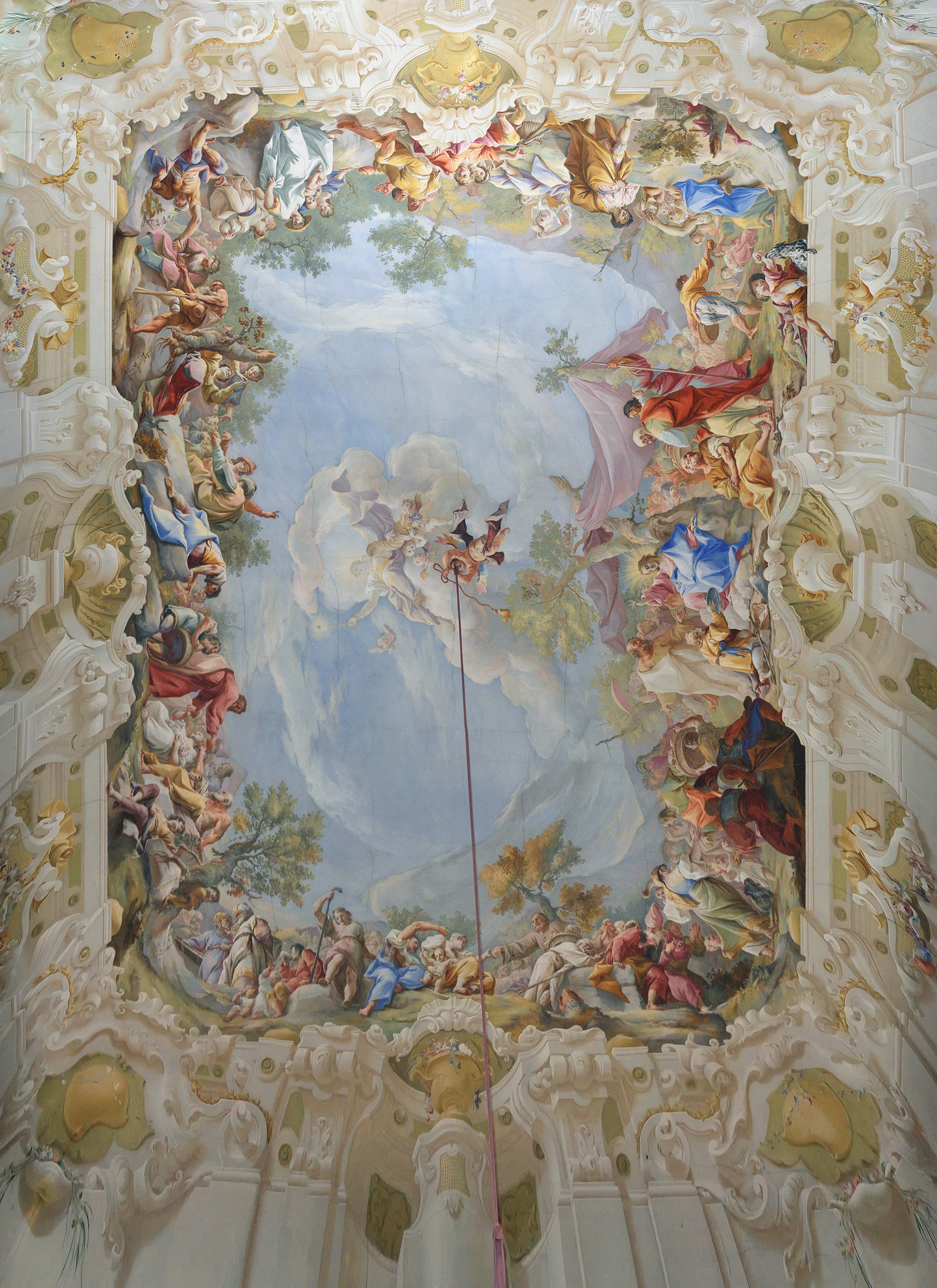 The ceiling fresco in the Marble Hall of the Premonstratensian Chorherrenstift Geras in Lower Austria, district of Horn, was painted by the Austrian painter Paul Troger in 1738. It shows the multiplication of the loaves, which is described as "feeding of the five thousand" in the Gospel of Matthew in chapter 14.13 to 21.